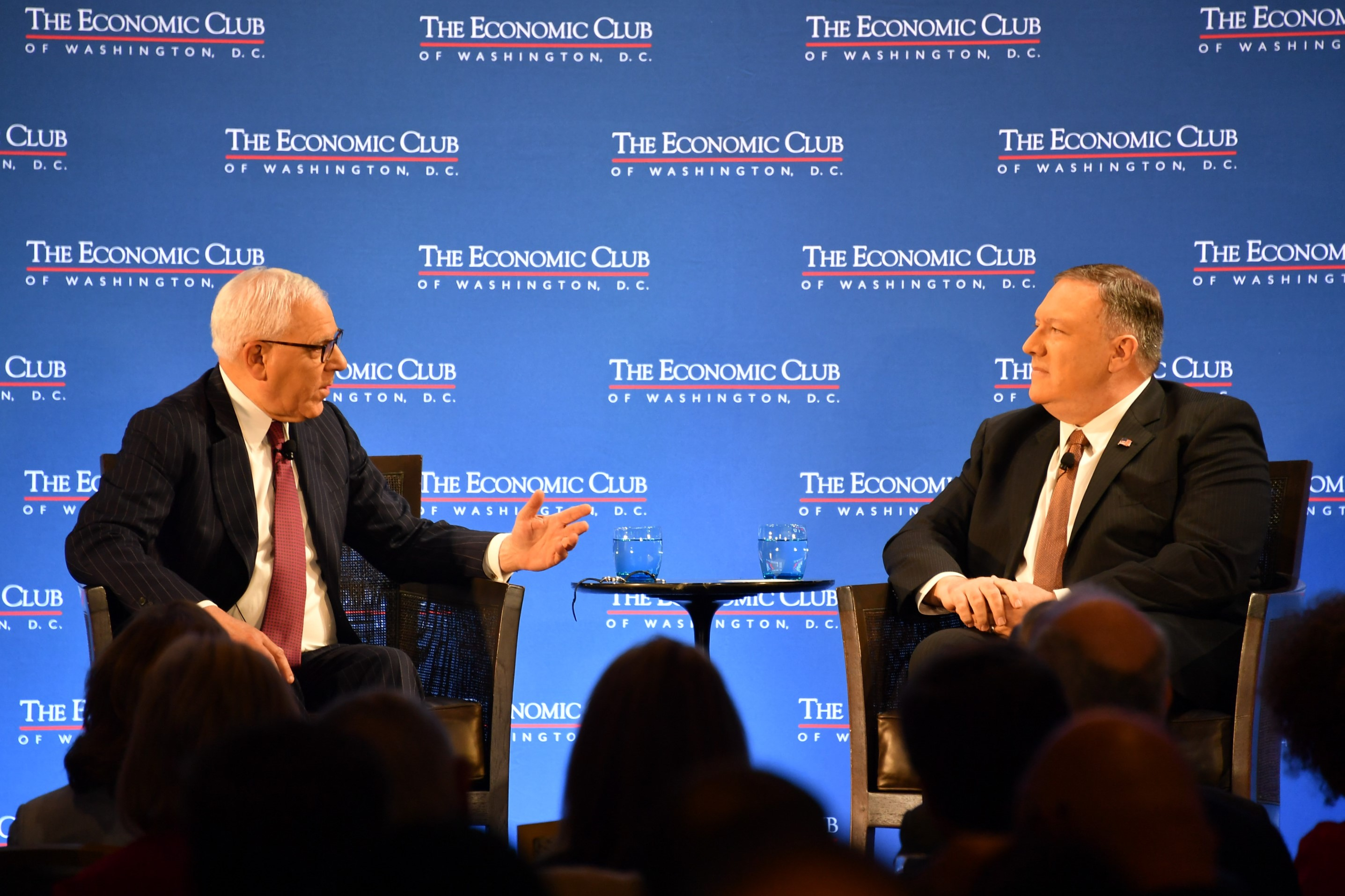 U.S. Secretary of State Michael R. Pompeo participates in a discussion with David Rubenstein at the Economic Club of Washington, D.C. on July 29, 2019. [State Department photo by Michael Gross/Public Domain]